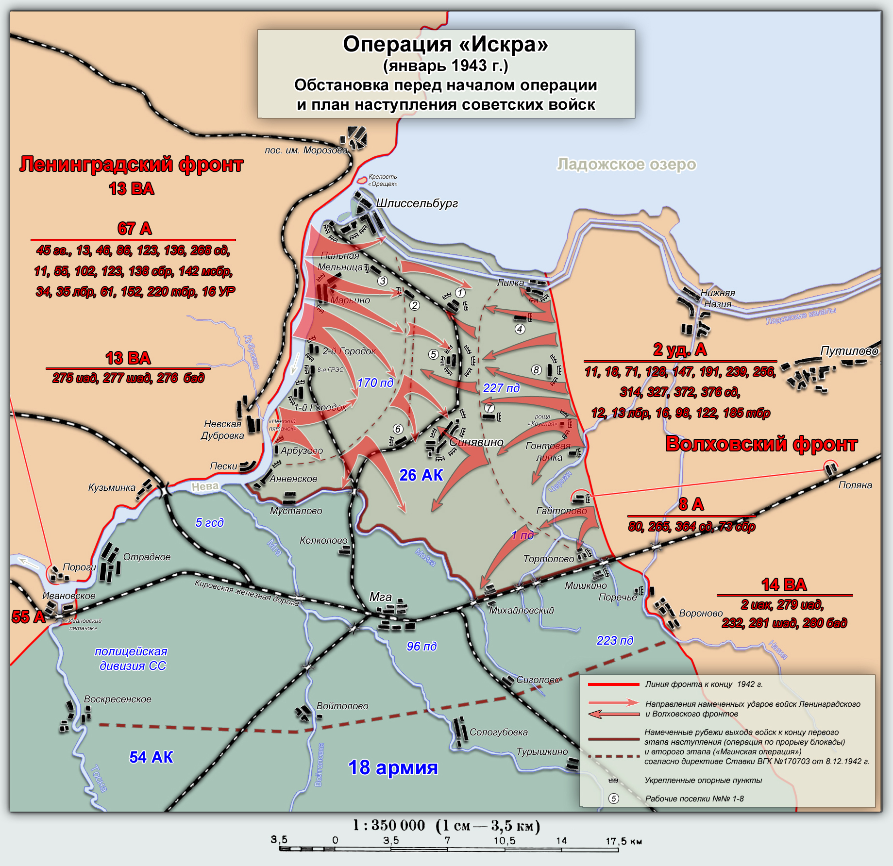 Operation Iskra (January 1943). The plan of the Soviet offensive.